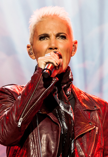 Marie Fredriksson of Roxette live at Odderøya Live 2012